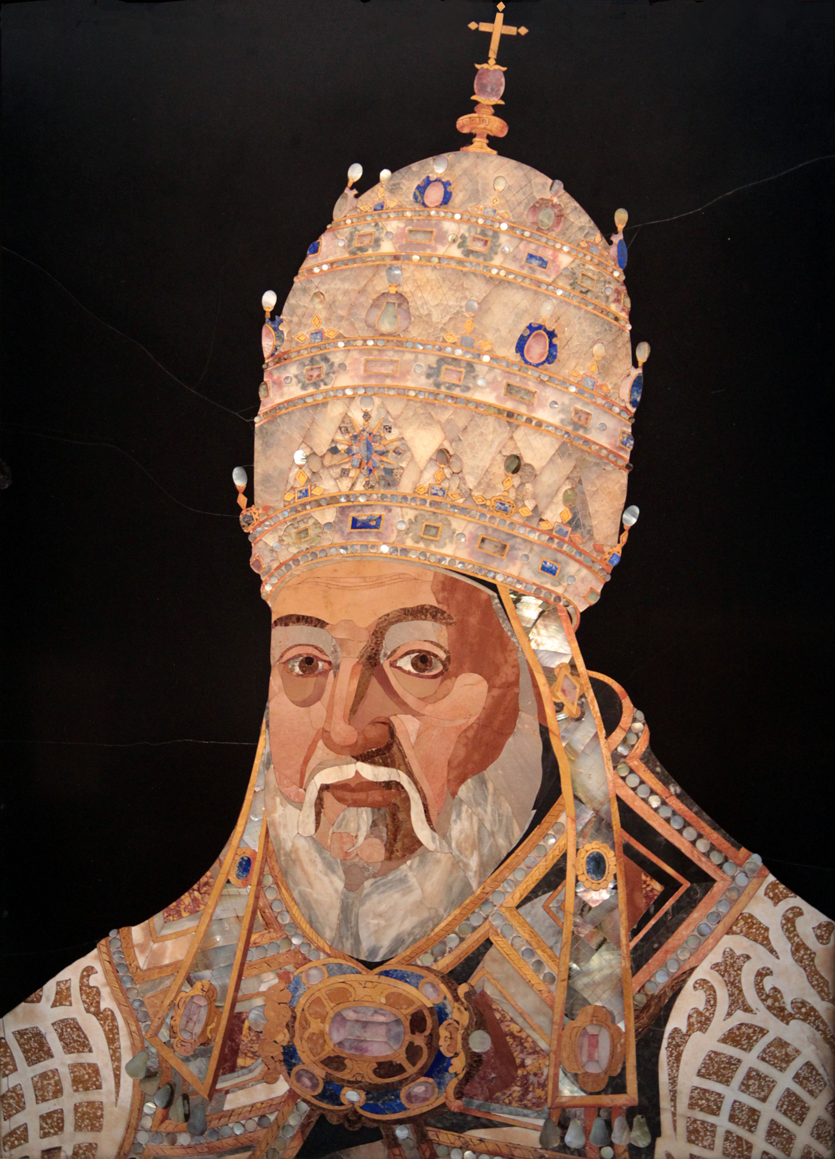 "Pope Clement VIII Aldobrandini", work made with marble, lapis lazuli, mother of pearl, limestone, calcite and black stone (H. 101.7 cm, l. 75.2 cm) by Medici workshops, on a draft by Jacopo Ligozzi, between 1601 and 1602. Work belonging J. Paul Getty Museum (Acession number 92.SE.67) in Los Angeles (California). - Photograph taken at the exhibition "l'Europe de Rubens"( The Europe of Rubens) at the Louvre-Lens.